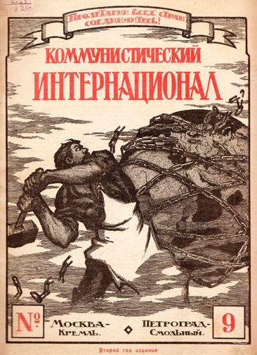 Cover of Communist International magazine. 1920, issue no. 9. Not copyrighted at time of original publication. Published prior to 1923, public domain. Original in Tim Davenport collection, scanned by me for Wikipedia. No copyright claimed.